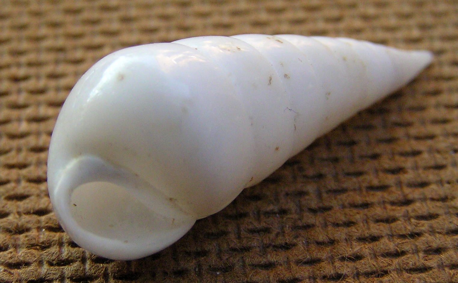 Melanella martinii (A. Adams in Sowerby, 1854) , Madras, India